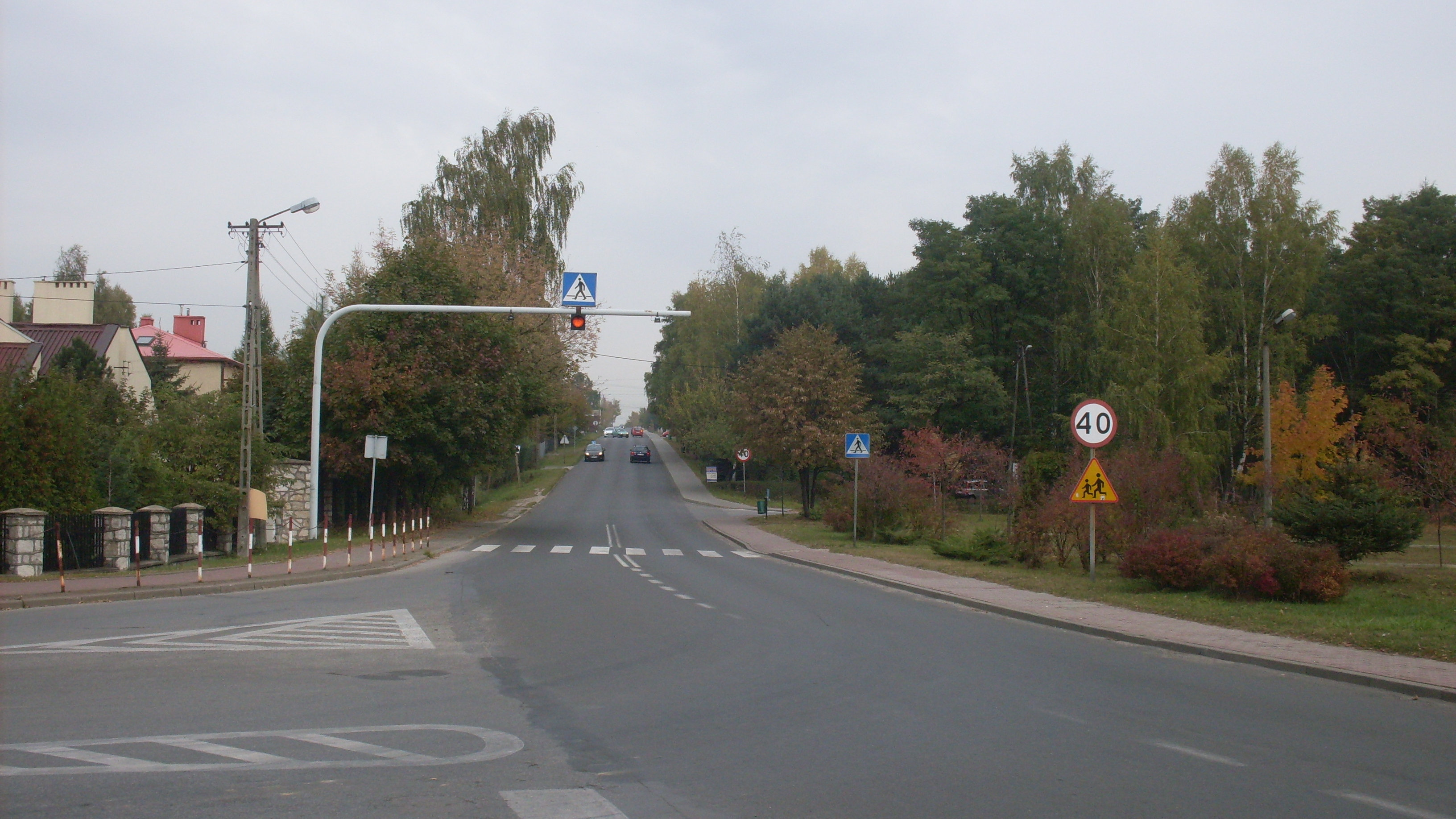 Bukowno. Kolejowa street